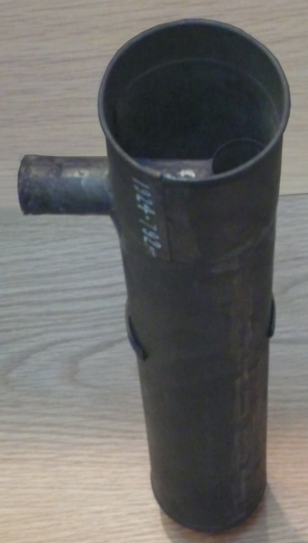 Top frontal view of the first ever Watt condenser which led to the improvement of the Boulton & Watt steam Engines in comparison with their contemporaries. Steam enters brass condenser at the left. The Steam is forced through the condenser by an air pump (vacuum pump), part of the outer tubing of the later can be seen attached to the steam inlet into the condenser. The steam flows through the input tube down two smaller tubes (not visible) into the false bottom of the condenser which is connected to the integral air pump. For operation the condenser was filled with water.